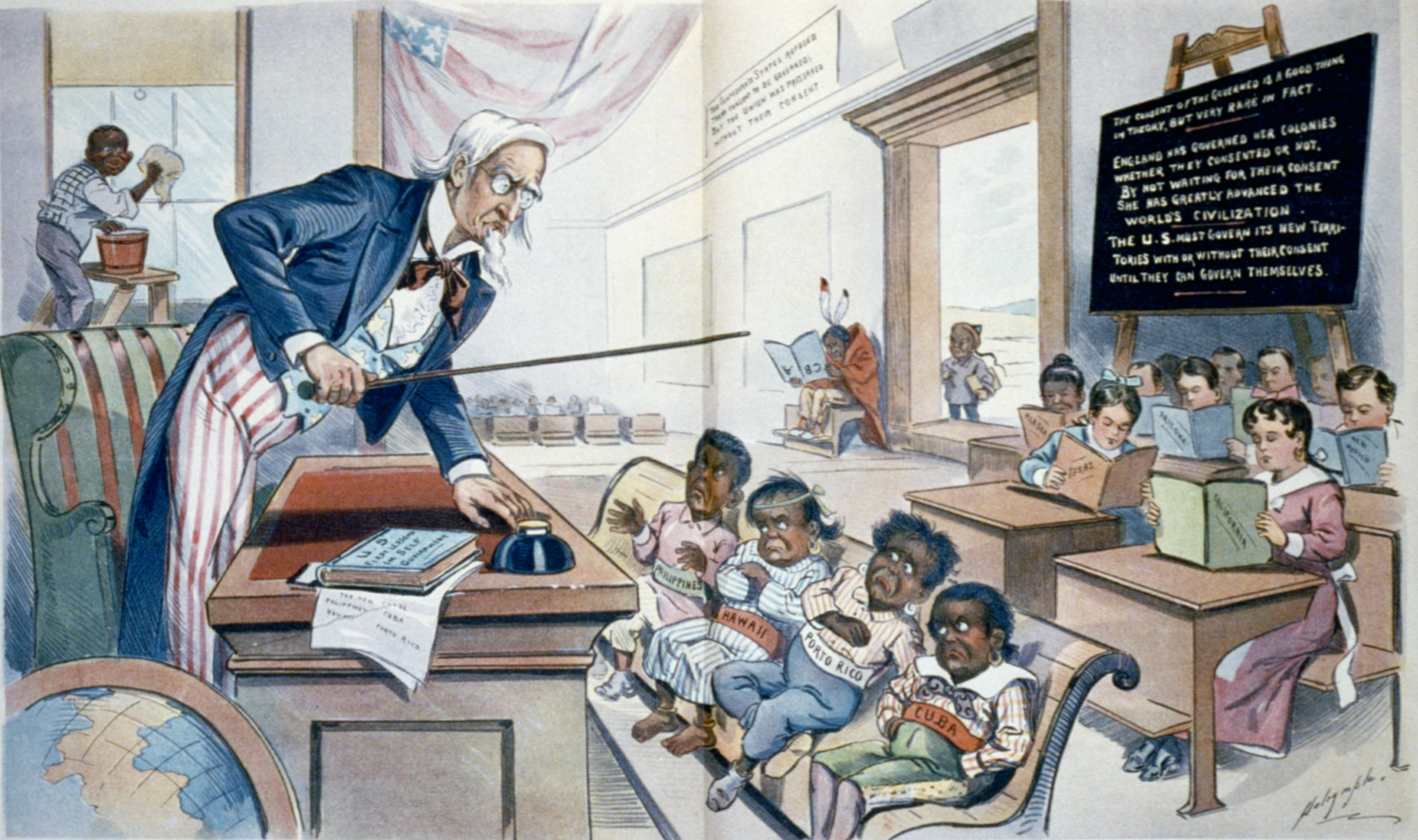 Caricature showing Uncle Sam lecturing four children labelled Philippines (who appears similar to Philippine leader Emilio Aguinaldo), Hawaii, Puerto Rico and Cuba in front of children holding books labelled with various U.S. states. In the background are an American Indian holding a book upside down, a Chinese boy at the door, and a black boy cleaning a window. Above the door reads "The Confederate States refused their consent to be governed; but the union was preserved without their consent" Originally published on p. 8-9 of the January 25, 1899 issue of Puck magazine. Caption: "School Begins. Uncle Sam (to his new class in Civilization): Now, children, you've got to learn these lessons whether you want to or not! But just take a look at the class ahead of you, and remember that, in a little while, you will feel as glad to be here as they are!" Blackboard: The consent of the governed is a good thing in theory, but very rare in fact. — England has governed her colonies whether they consented or not. By not waiting for their consent she has greatly advanced the world's civilization. — The U.S. must govern its new territories with or without their consent until they can govern themselves. Poster: The Confederated States refused their consent to be governed, but the Union was preserved without their consent. Book: U.S. — First Lessons in Self Government Note: (on table) The new class — Philippines Cuba Hawaii Puerto Rico